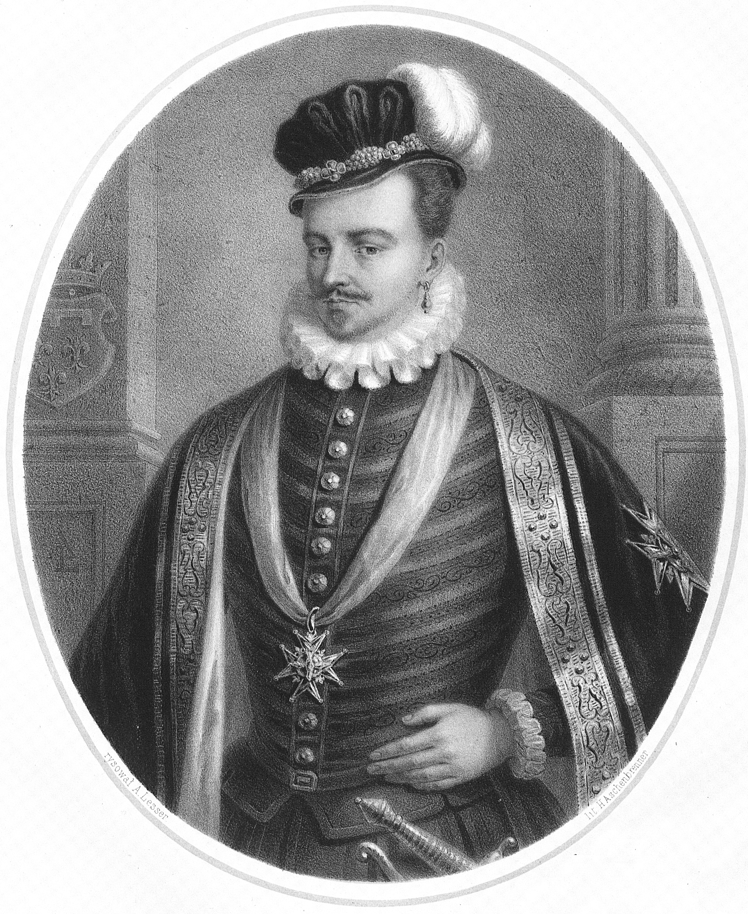 Henry of Valois, King of Poland and France